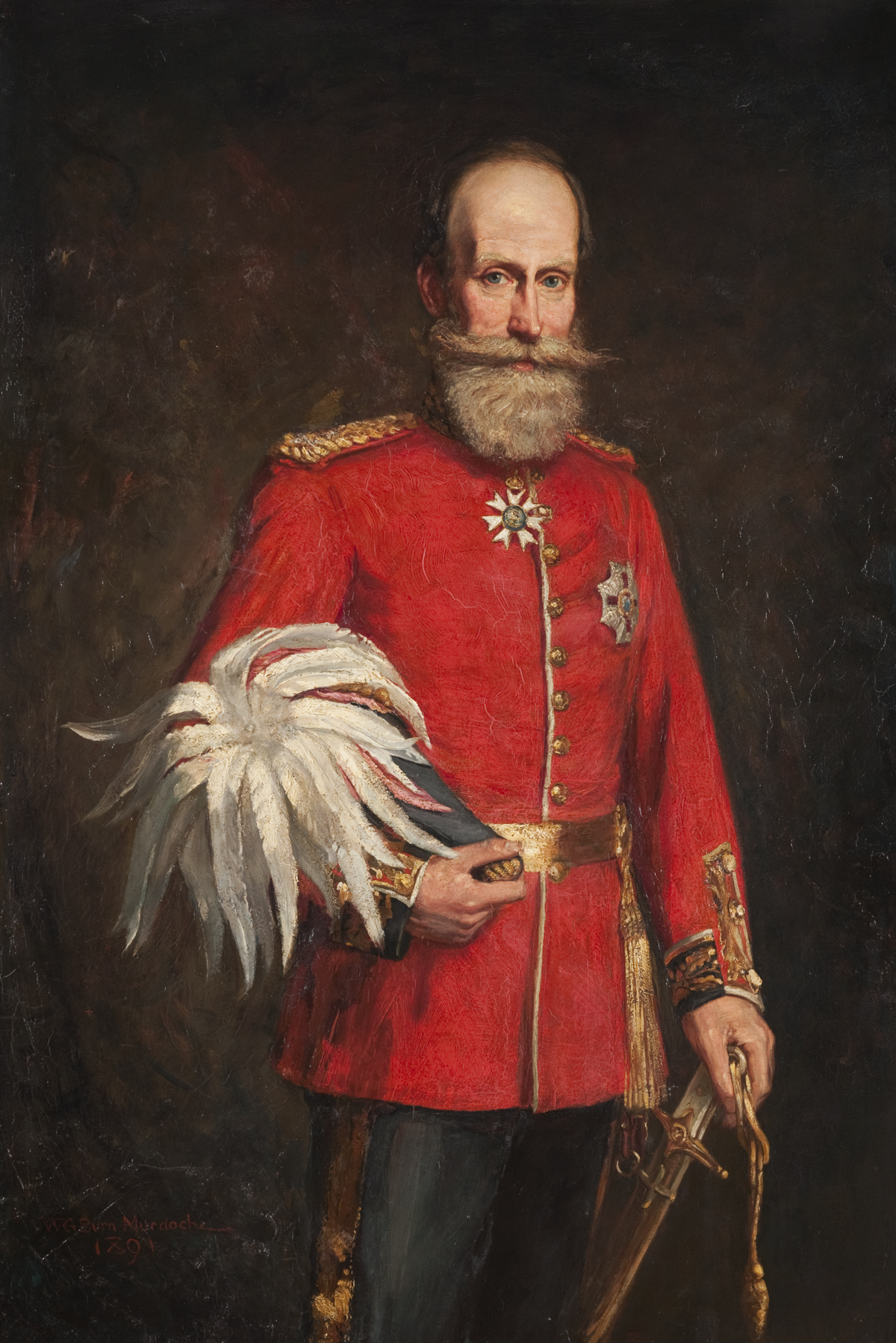 Major General Robert Murdoch Smith (1835–1900), KCMG - Engineer - Soldier - Diplomat